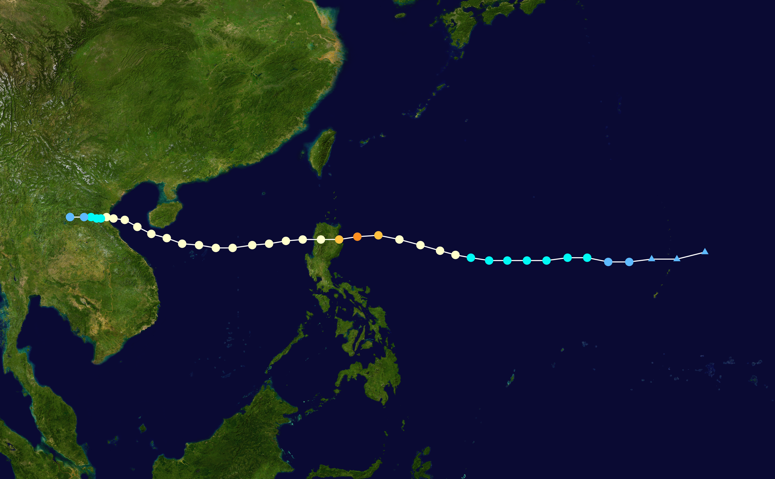 Typhoon Nancy 1982 track. Uses the color scheme from the Saffir-Simpson Hurricane Scale.